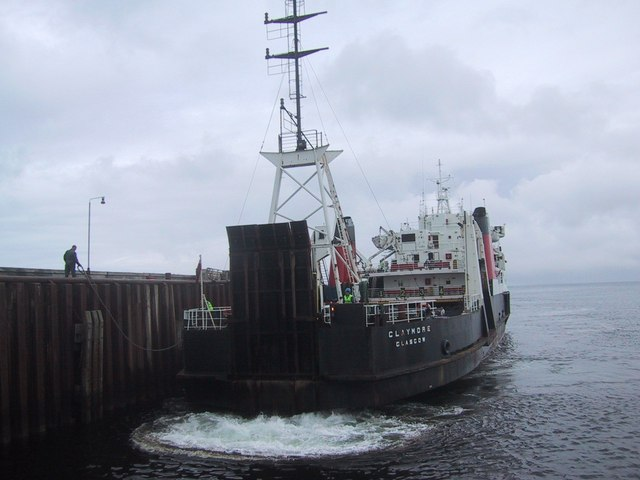 Ferry backs alongside Gill's Bay Pier